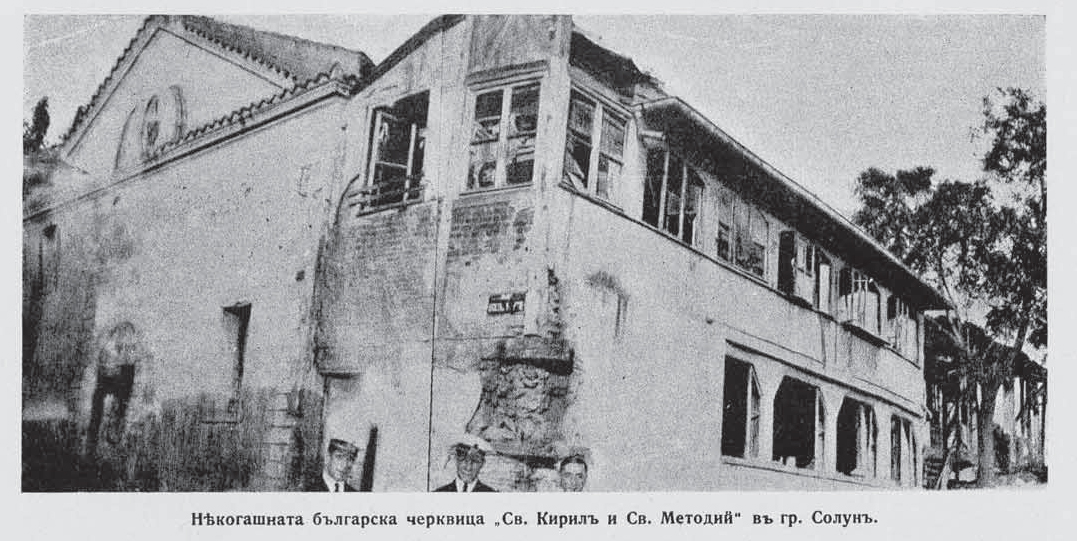 Saint Cyril and Methodius Church in Thessaloniki